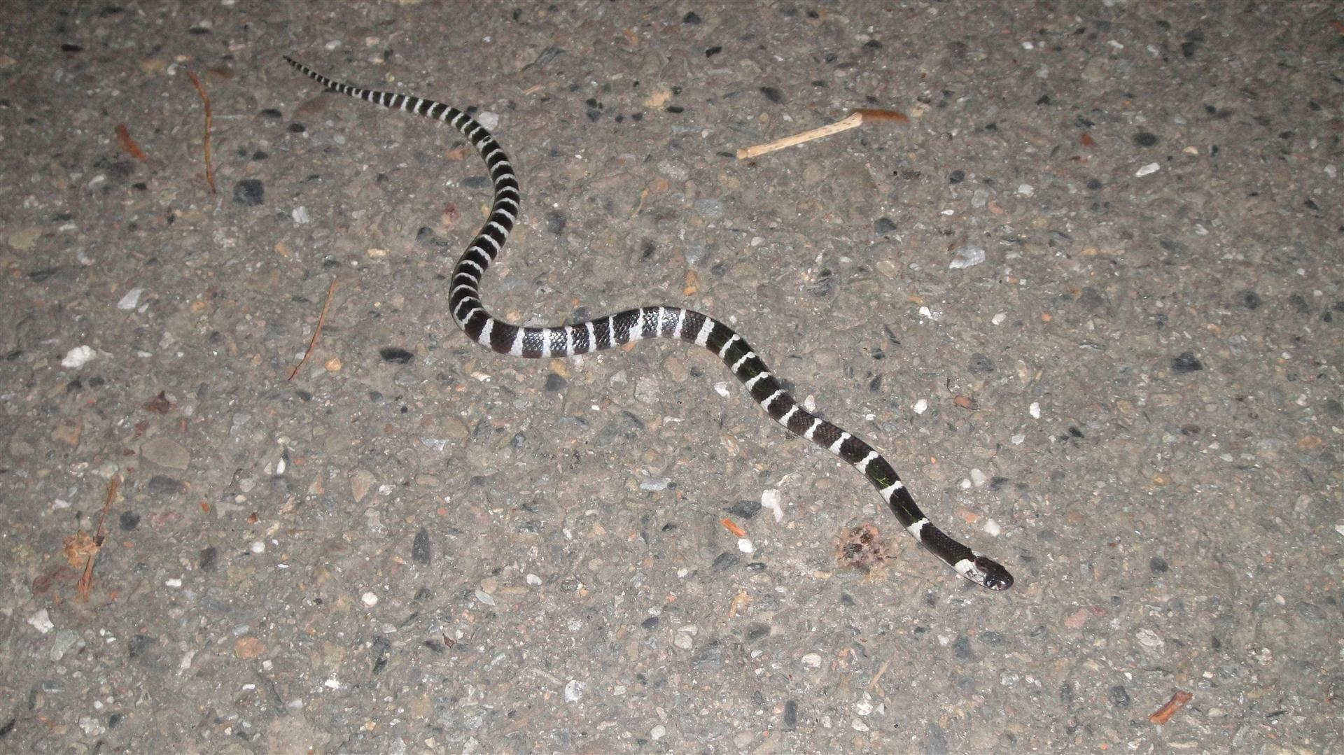 Bungarus multicinctus (雨傘節, 銀環蛇 in Chinese) Photoed in Taiwan